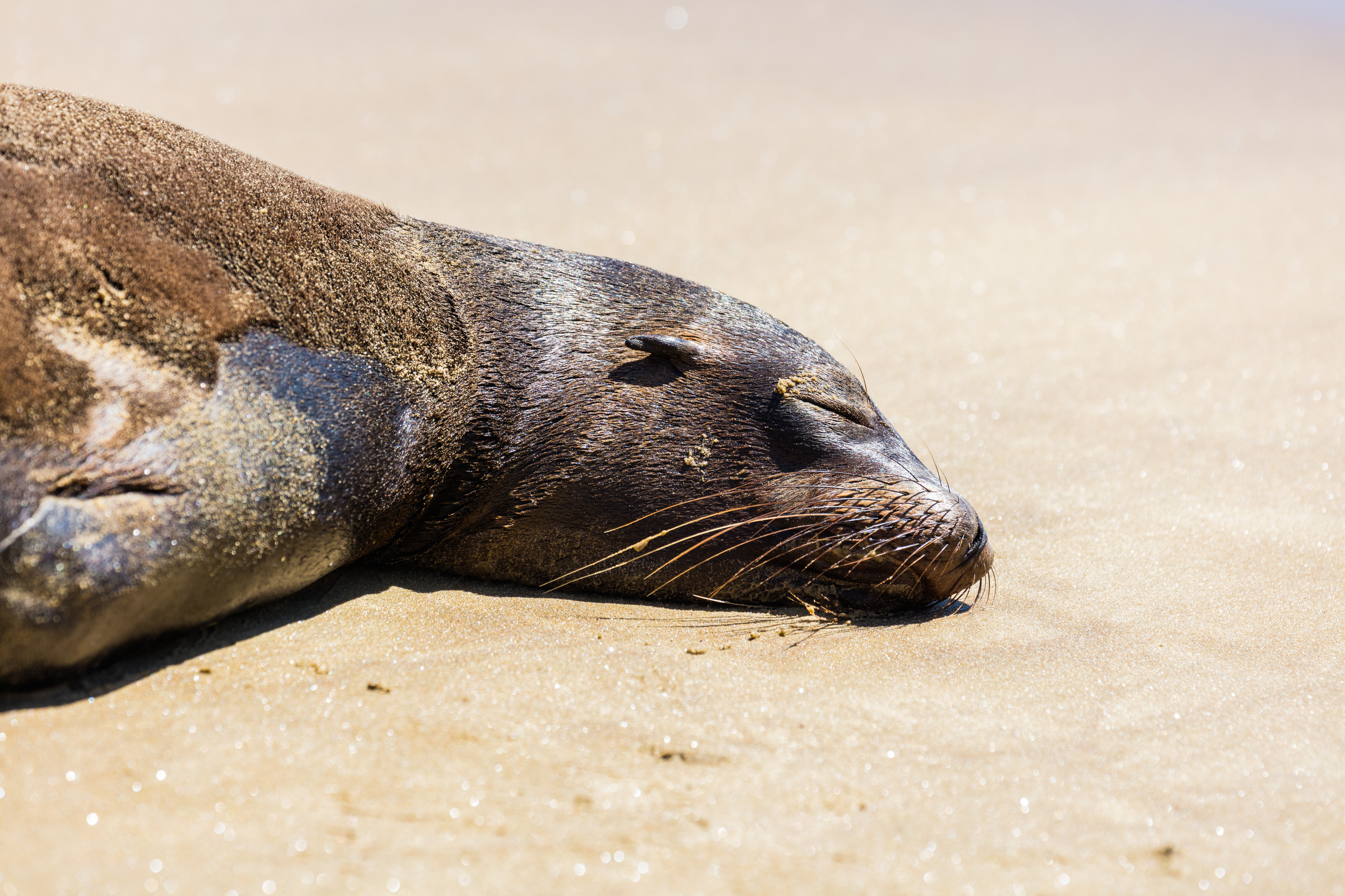 Sea lion (Zalophus californianus wollebaeki), Punta Pitt, San Cristobal island, Galapagos islands, Ecuador